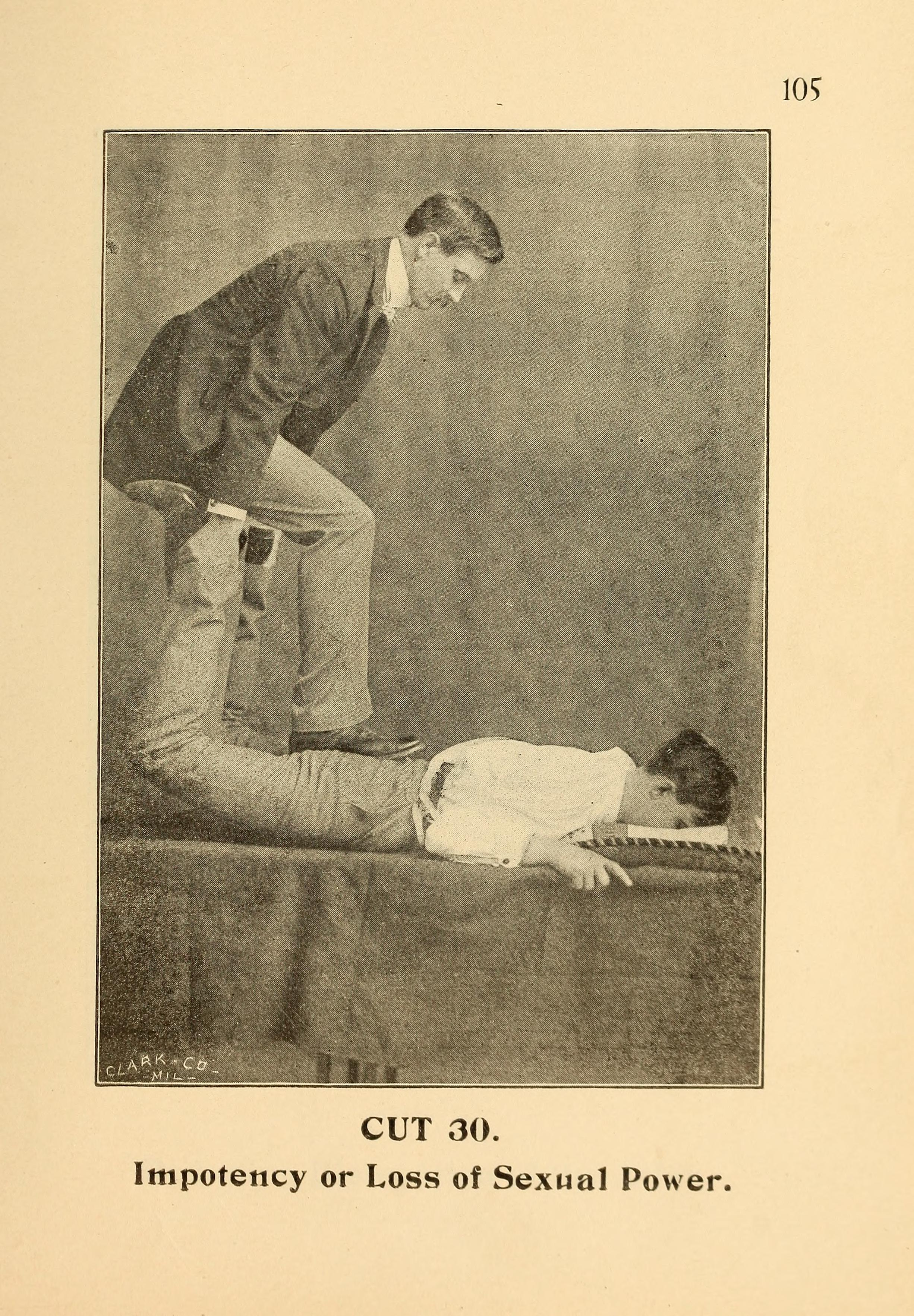 Title: The only osteopractic method of treating diseases at home Year: 1902 (1900s) Authors: Lewis, Charles Albert, 1858- (from old catalog) Subjects: Osteopathic medicine Magnetic healing Publisher: Afton, Iowa, Star-enterprise print Text Appearing Before Image: TMENT. Have the patient lie on the face. Then let theoperator, (see Cut 30), stand between the patientslegs, grasping an ankle in each hand, place one footupon the sacrum and press hard, while he draws thelimbs slowly and strongly upward, as high as thepatient can stand without too much pain. Also, give Spinal Treatment, Cut 19. Give General Treatment, see page 141. Treat from the Hypogastric plexus, Cut 4. Vibrate over the prostate gland, described below:See Vibration. This treatment frees the erection and ejaculationcenters and stimulates the nerves to action, permittingthem to perform their different functions. Place the patient on his side, oil the finger and care-fully pass it up the rectum. Manipulate gently theprostate gland which surrounds the neck of the blad-der and the urethra; in shape and size it resemblesa chestnut, and can be distinctly felt from the rectum,especially when enlarged. Also, manipulate the penis and testicles thoroughly,giving strong extension to them. 10? Text Appearing After Image: CUT 30.Impotency or Loss of Sexual Power. 107